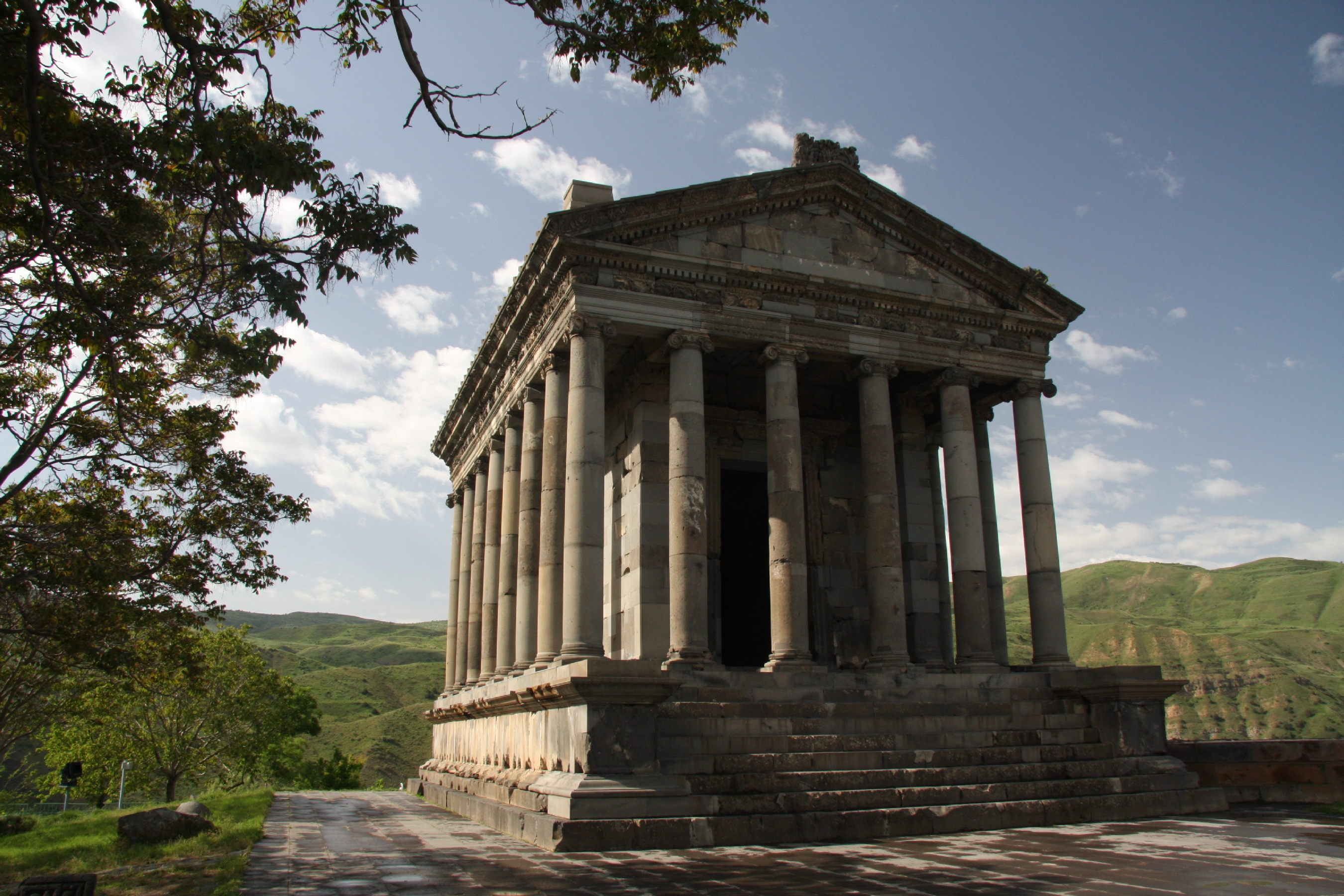 Գառնիի Տաճար 21/4.2